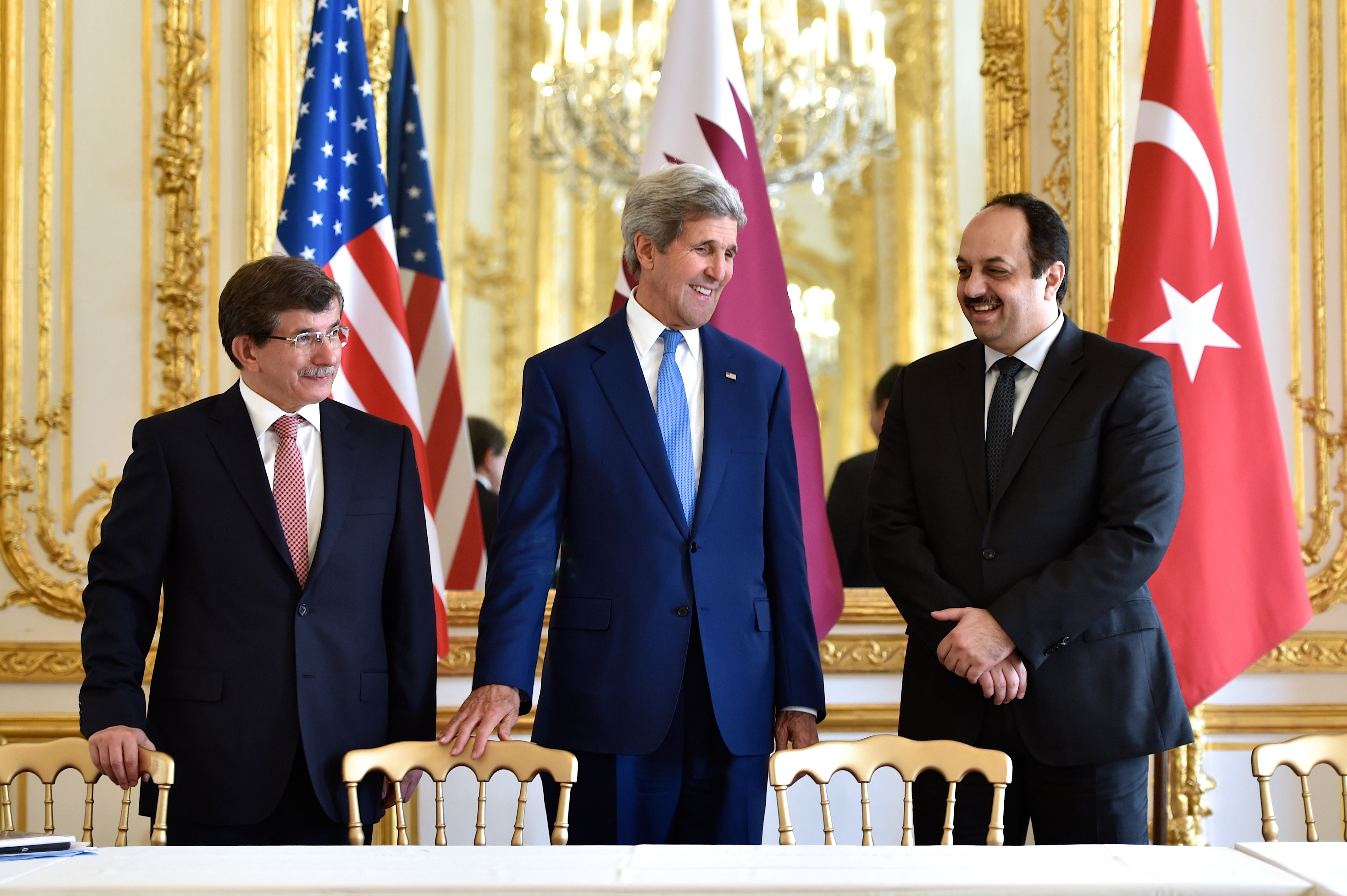 Secretary Kerry, Foreign Ministers From Turkey and Qatar Hold Trilateral Meeting in Paris Focused on Reaching Cease-Fire in Gaza Strip.